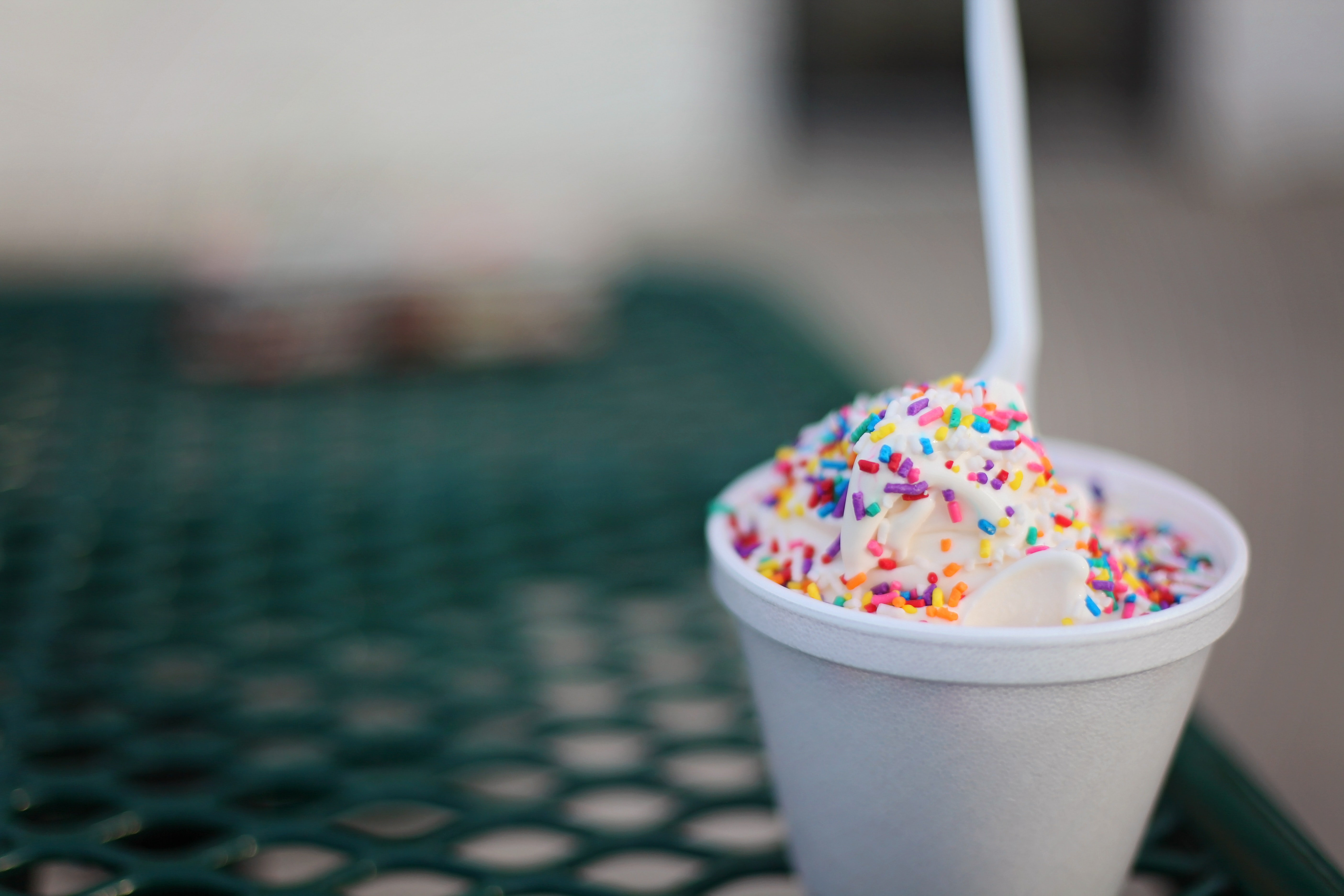 Ice cream in a foam cup with multi-colored sprinkles and a plastic spoon.